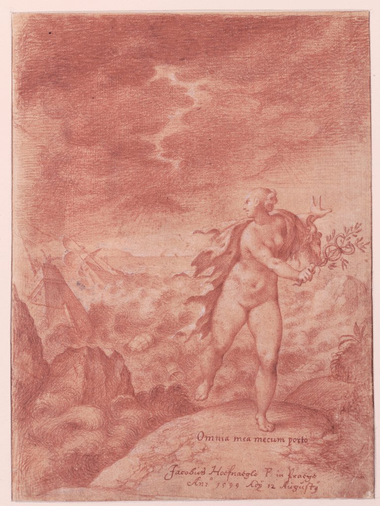 Jacob Hoefnagel, Allegory of the Humanist Virtue, drawing, red chalk, white heightening on paper, text on the drawing: omnia mea mecum porto (all I own I carry with me), dimensions: 199 × 148 mm, date: 1599, Museum of Fine Arts in Budapest.